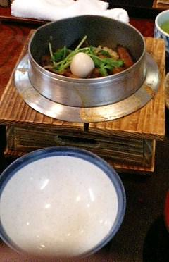 Kamameshi This picture was taken by 特急東海 釜飯